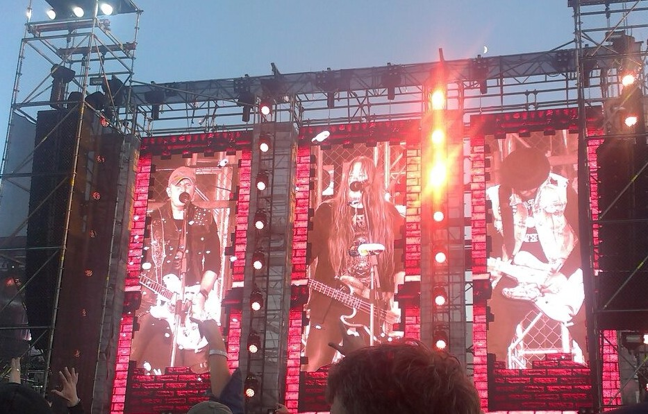 Kabát at airport Letňany 23. 6. 2015